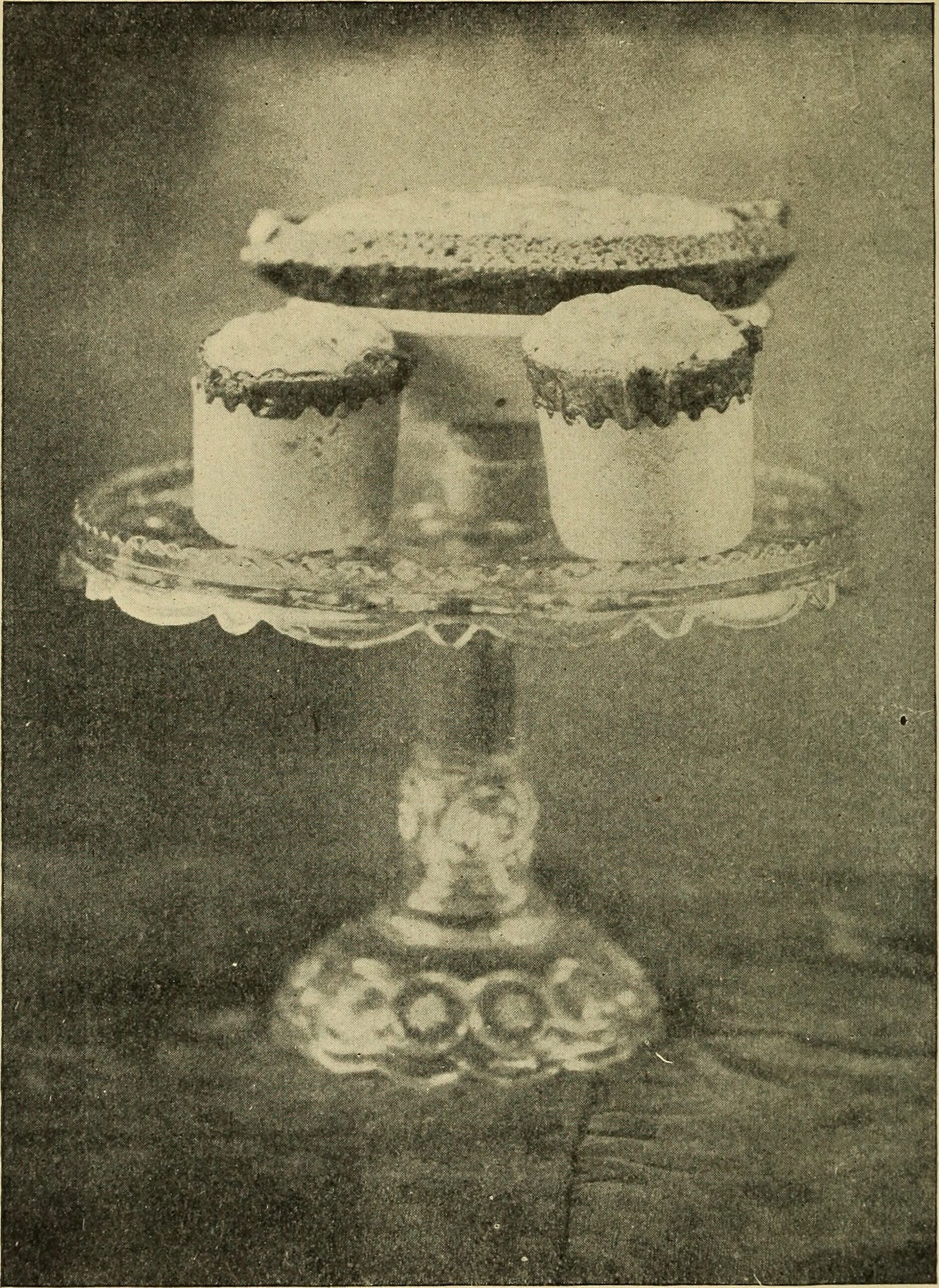 Charlotte russe. Title: The pride of the household; the bakers' complete management Year: 1900 (1900s) Authors: Heinzer, Melton Anthony. (from old catalog) Heinzer, Katie Margaret. (from old catalog) Subjects: Baking Publisher: (n.p.) Text Appearing Before Image: Copyright, 1900, by M. A. & K. M. Heinzer. ORANGE SLICES. 132 Orange Slices. 4 eggs. -J cup of sugar. I cup ^f flour. HOW TO MIX. Beat eggs and sugar over a slow fire until lukewarm(with an egg beater), then beat it 5 or 8 minutes until light,and mix in the flour lightly. Bake in musk melon tins. Bake in a hot oven. These will bake in 10 minutes. After baked, cut them from the tins with a knife, thencut them nearly through the thickest part and spread themwith jelly, then ice them over the top with boiled watericing flavored with oranges or orange extract. Copyright, 19u0, by M. A. & K. M. Heinzer. K^3 Text Appearing After Image: Copyright, 1900, by M. A. & K. M. Heinzer. CHARLOTTE RUSSE. 134 Charlotte Russe. 2 whites of eggs. I pint of sweet cream. 3 tablesipoonfuls of sugar.•J ounce of gelatine. I teaspoonful of vanilla extract. HOW TO MAKE. Dissolve the gelatine in one-half cup of lukewarm waterand strain it into the cream, then add in the sugar andvanilla and beat 5 minutes (with an egg beater), then setit on ice until it becomes stifY. Beat the wdiites of eggs toa stiff froth, then beat them into the cream 3 minutes andlet it stand on the ice for a few minutes until stiff. Coverthe bottom and slides of the cups or dishes with bakedsponge cake on jelly roll layer, place the sides in first andthen the bottom. Place a tube into an ornamenting bagand put the charlotte into it, then press the charlottethrough the tube into the cups or dishes. This charlottecan be made in the winter without using any ice, if the tem-perature is down to 40 degrees, by placing the charlotteinto the open air, or it can be pl